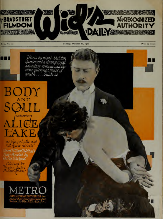 Alice Lake in the film Body and Soul (1920) directed by Charles Swickard